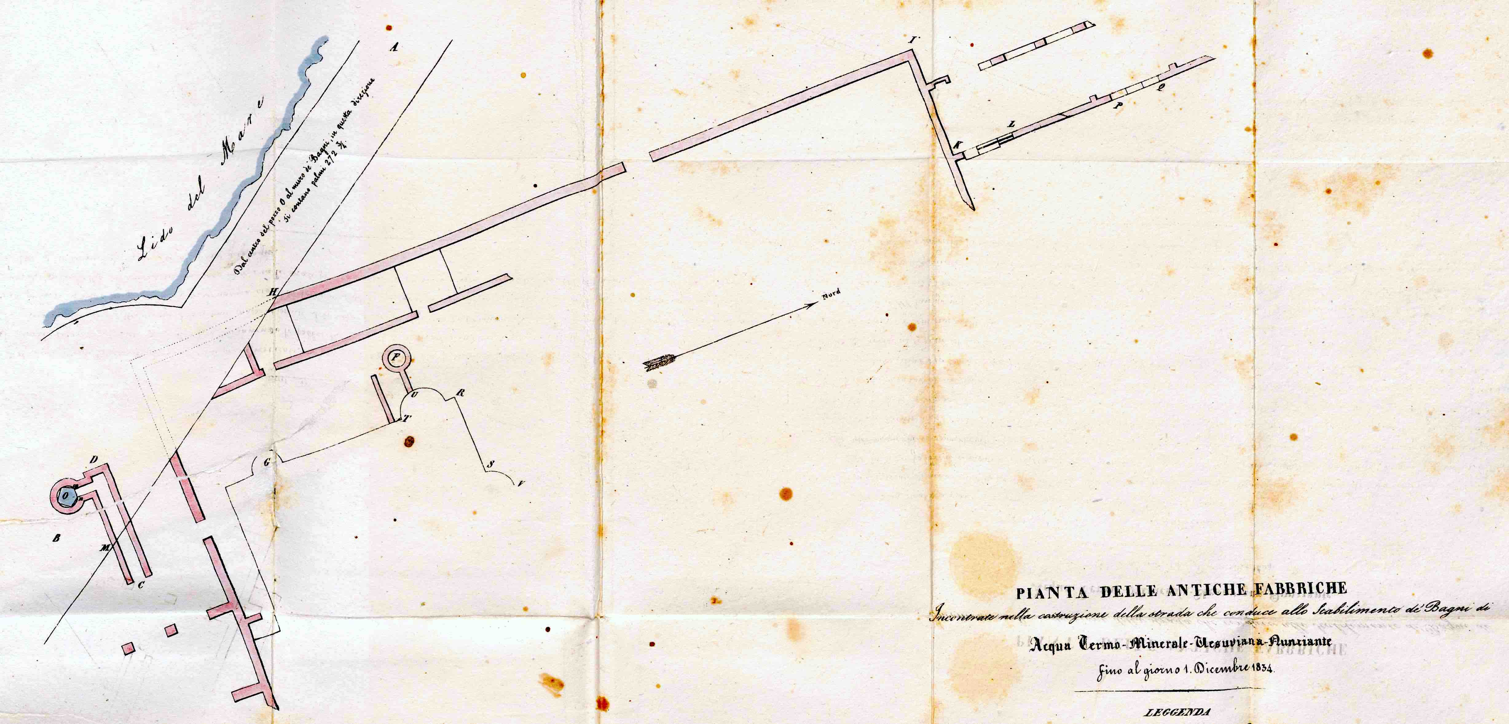 Plan of Oplontis baths